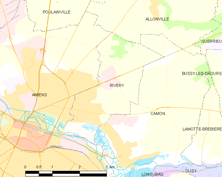 Map of French municipality Rivery